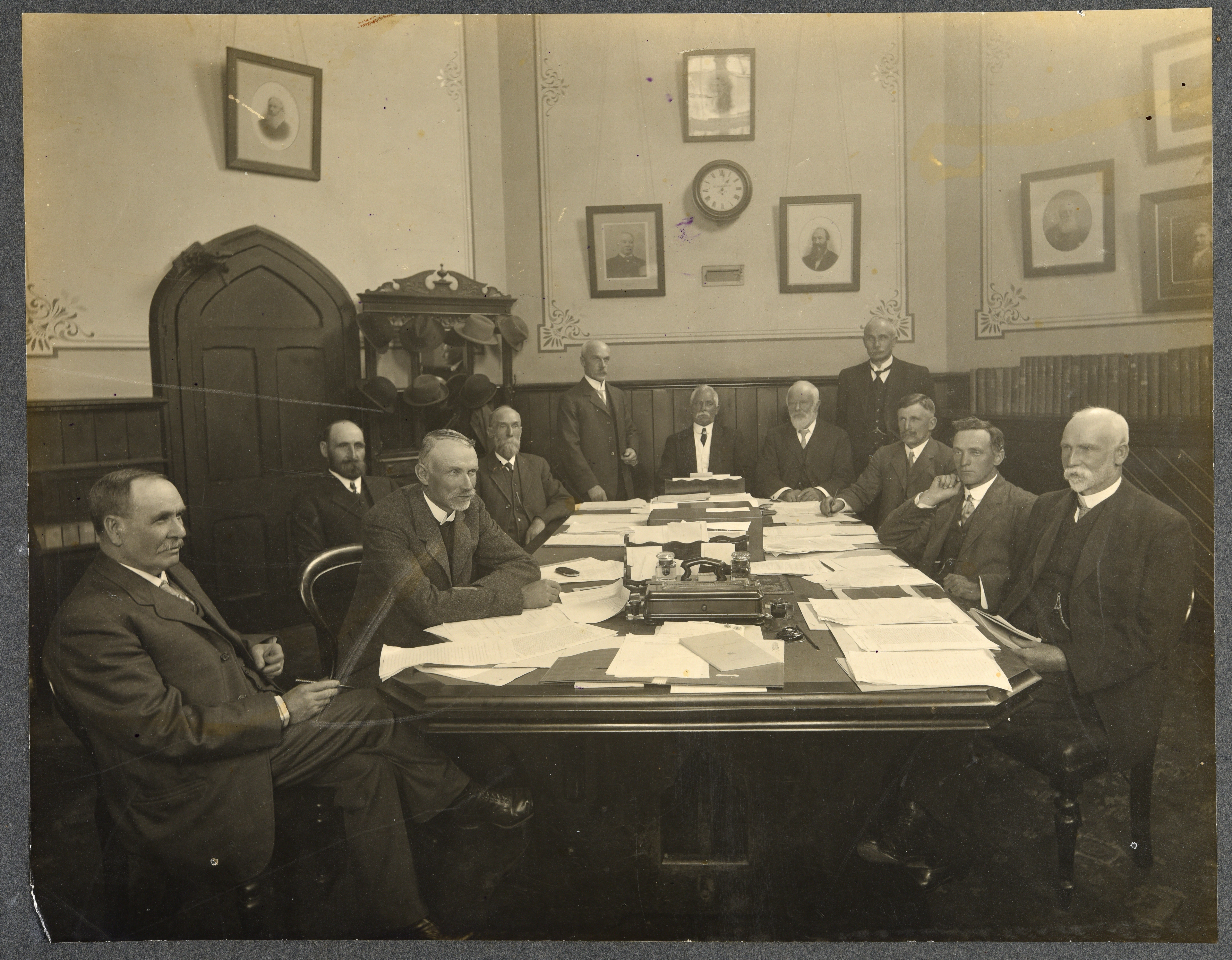 This photograph is of the members of the North Canterbury Education Board in January 1916, seated in the octagonal tower room of the Normal School on Cranmer Square, a building sadly demolished in 2012 due to quake damage. From August 1916 the Education Districts of South Canterbury, Grey and Westland were amalgamated with North Canterbury, and the resulting Canterbury Education Board moved to premises on Oxford Terrace, near Victoria Square. The Education Act of 1877 introduced a national system of free, secular, compulsory education, and established the Department of Education and Education Boards around the country to direct and inspect schools. Previously education had been administered by the Provincial governments. In 1989 the Department of Education and the District Education Boards were disestablished, making way for a de-centralised administration of education under the Ministry of Education. The people in the photograph, from left to right, are: John Jamieson, Matthew Dalziel, William Alexander Banks, Hugh Boyd, Henry Christopher Lane (Secretary), Charles Henry Opie (Chairman), Thomas William Adams, W. Brock (Senior Inspector), George Rennie, Ernest Herbert Andrews, William Henry Collins. Archives New Zealand Reference: CH278, folder 11 For further enquiries please Material from Archives New Zealand Te Rua Mahara o te Kāwanatanga